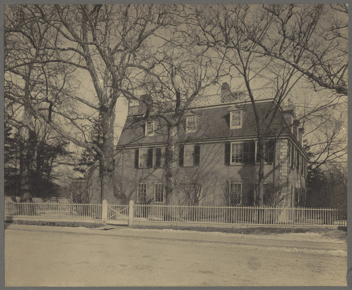 Birthplace of Edward Everett, Dorchester, Massachusetts. 1898 (approximate). Photograph. Built in 1770.